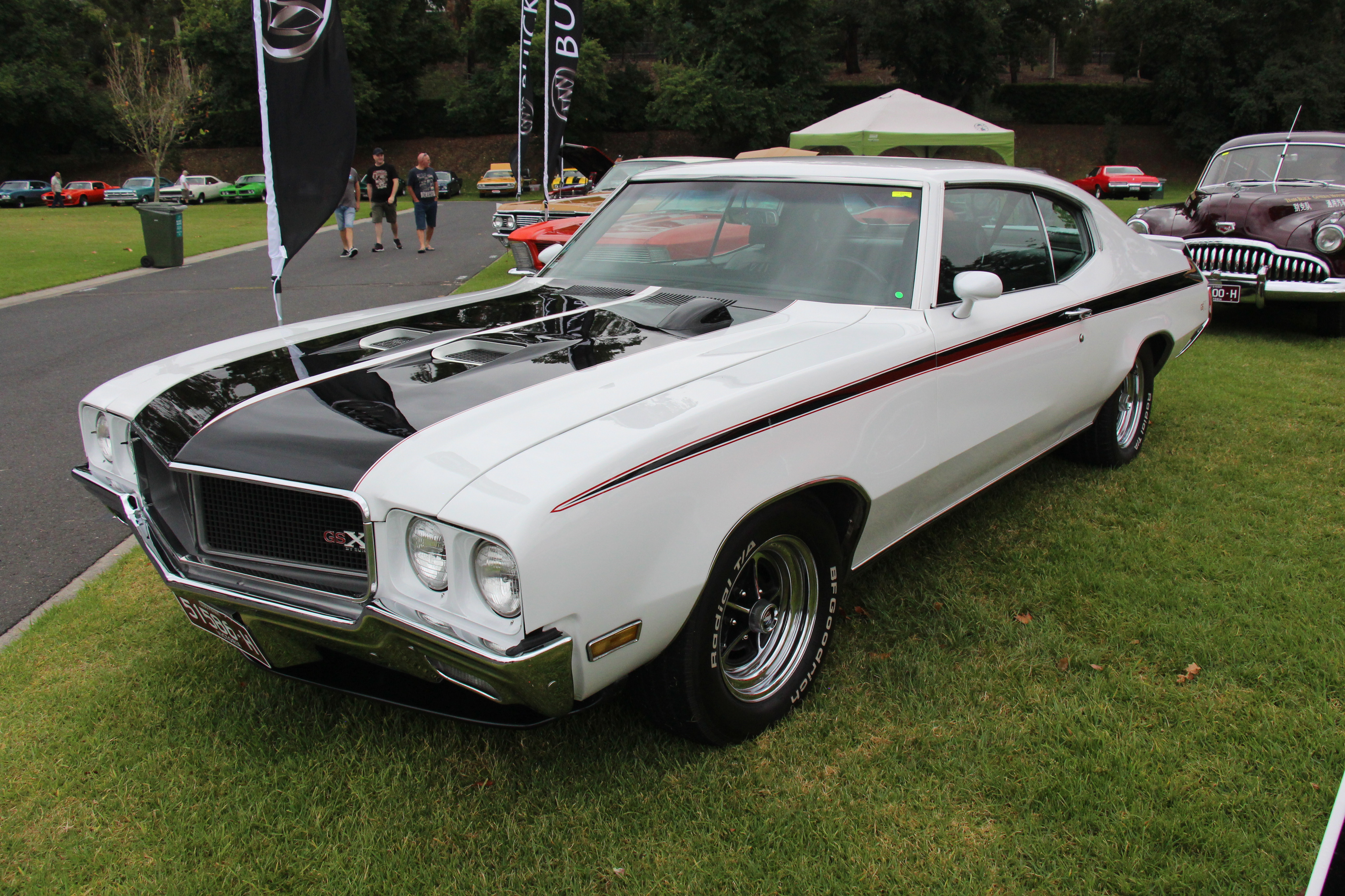 Apollo White. The Buick Motor Company was formed in 1903, it was General Motors' upmarket car, second only to Cadillac. The Grand Sport was introduced in 1965 as a performance option package on the Skylark. In 1968, the GS became a separate series and only available in 2 door Hardtop or Convertible. In 1970, the 400 was replaced by the 455. Base engine was still the 315hp 350, then the 350hp 455 (hood scoops), the high performance 360hp 455 Stage 1 version got a more aggressive camshaft, higher compression and 4 bbl carby. The GSX was an ornamentation package, Saturn Yellow or Apollo White (Rallye wheels, spoilers, stripes, suspension) Also available in 1970, the Riviera 2 door Hardtop, base and GS In 1970, the 112 and 116 inch wheelbase base model Special was dropped leaving the upscale Skylark and Skylark Custom, 260, 285 or 315hp 350 cu in V8s, in 2 door Hardtop or 2 and 4 door Sedan. The 123 inch wheelbase LeSabre and LeSabre Custom, 260hp 350 or 350hp 455 cu in, was available in 4 door Sedan, 2 or 4 door Hardtop and Convertible. The 126 inch wheelbase top of the line Electra 225, 225 Custom and Wildcat, 350hp 455 cu in, available in Convertible, 2 or 4 door Hardtop and Sedan.